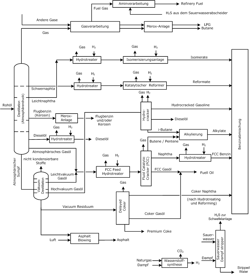 schematic process flow diagram of the processes used in a typical oil refinery.